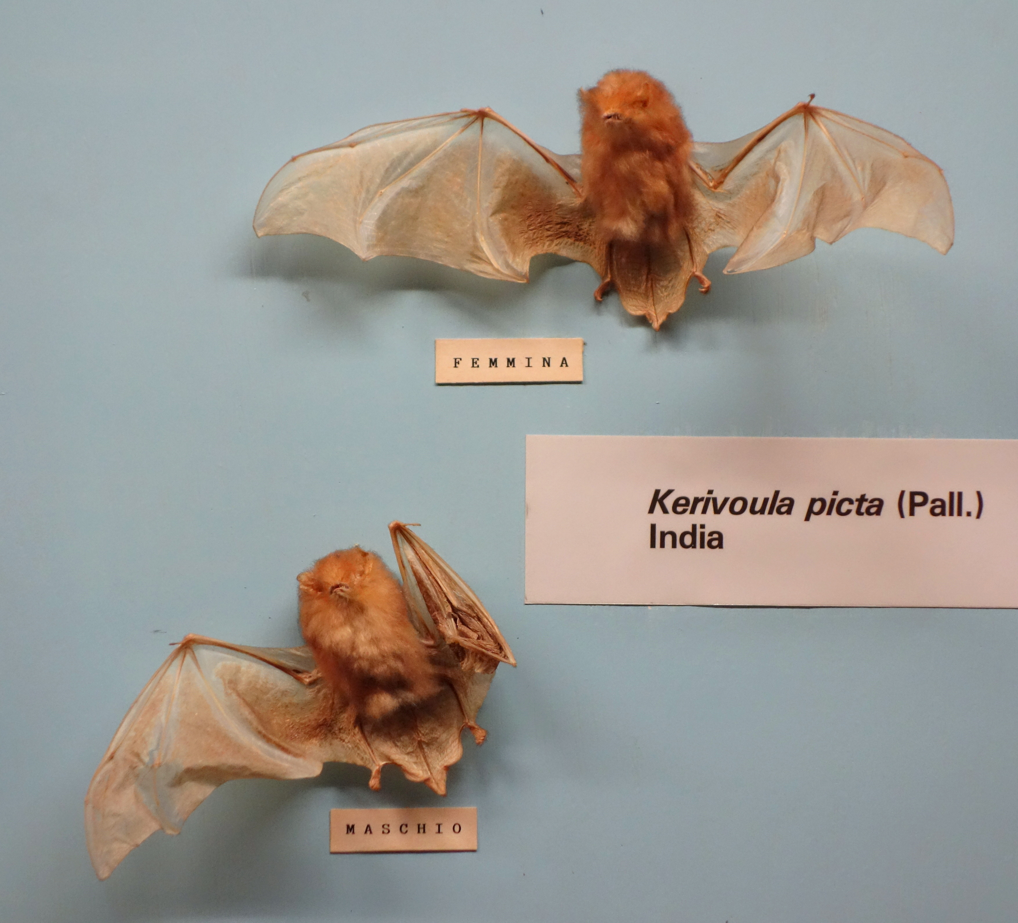 Exhibit in the Museo Civico di Storia Naturale di Genova, Via Brigata Liguria, 9, 16121, Genoa, Italy.